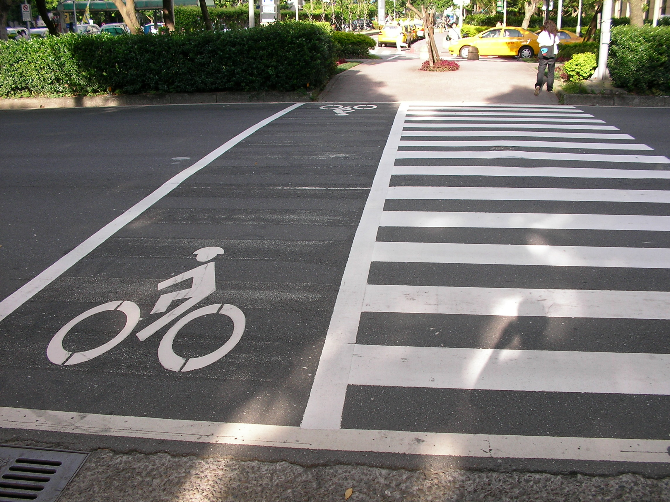 Segregated cycle facilities of Dunhua South Road in Taipei City.